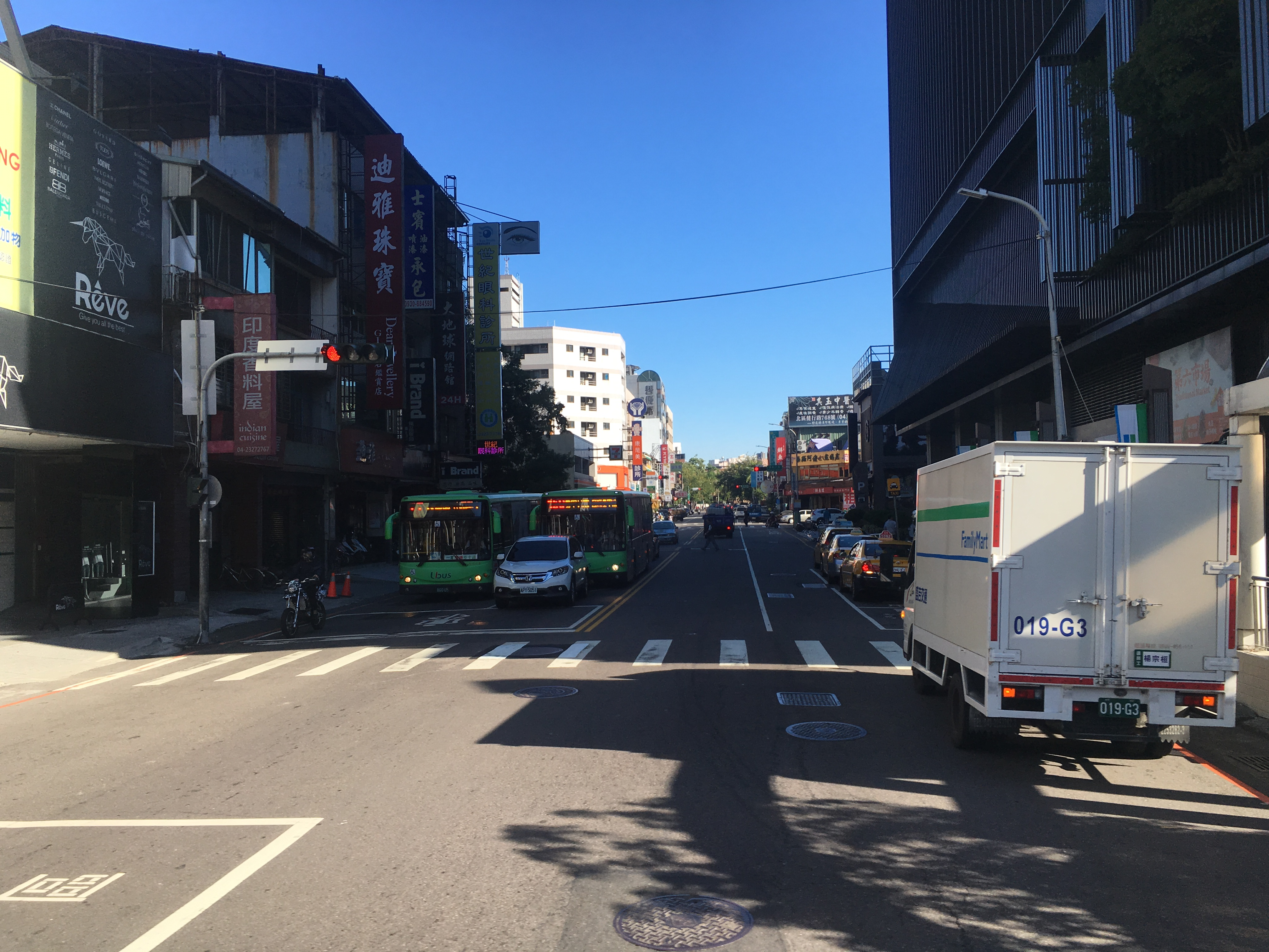 Looking northeast from the Intersection of Jianxing Road and Section 2, Taiwan Boulevard in West District, Taichung, Taiwan.